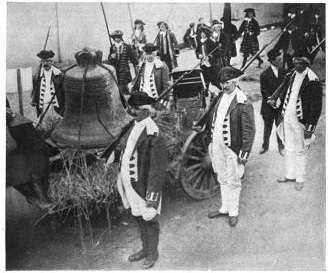 The Liberty Bell is paraded through the streets of Philadelphia in a recreation of its 1777 journey to Allentown, Founders Week, 1908. Appeared in St. Nicholas, 1911.